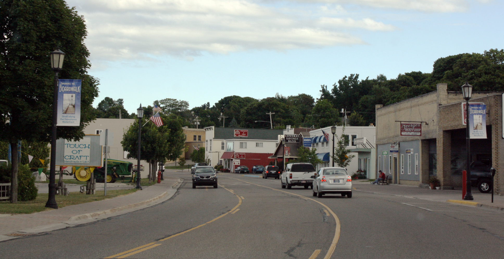 Looking south in downtown in St. Ignace, Michigan.